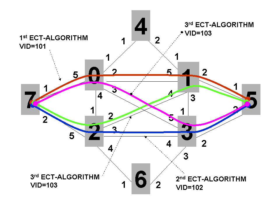 Example Equal Cost Multi Tree (Path) in an 802.1aq SPB network